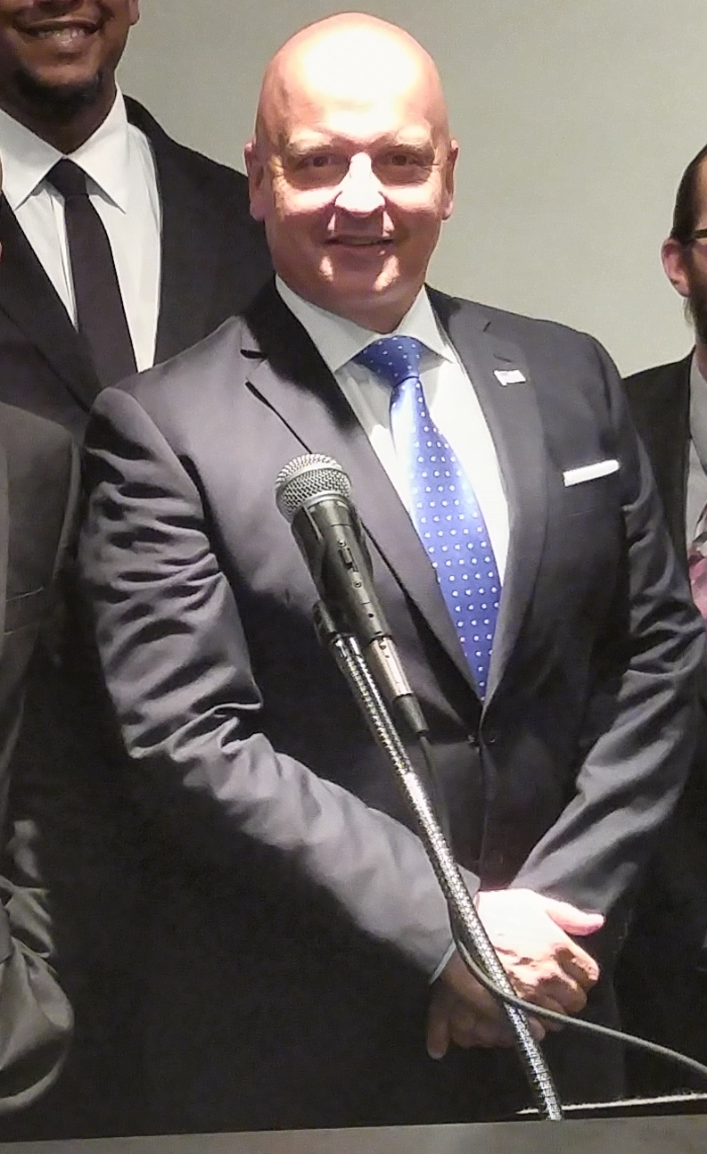 Independent Candidates from the second Independent Debate in Indianapolis